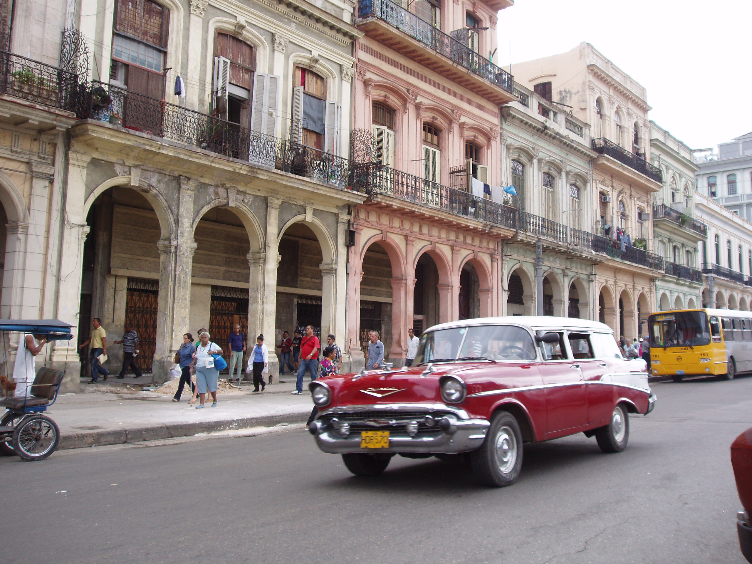 A street at the Old Havana (La Habana Vieja), a UNESCO World Heritage Site.